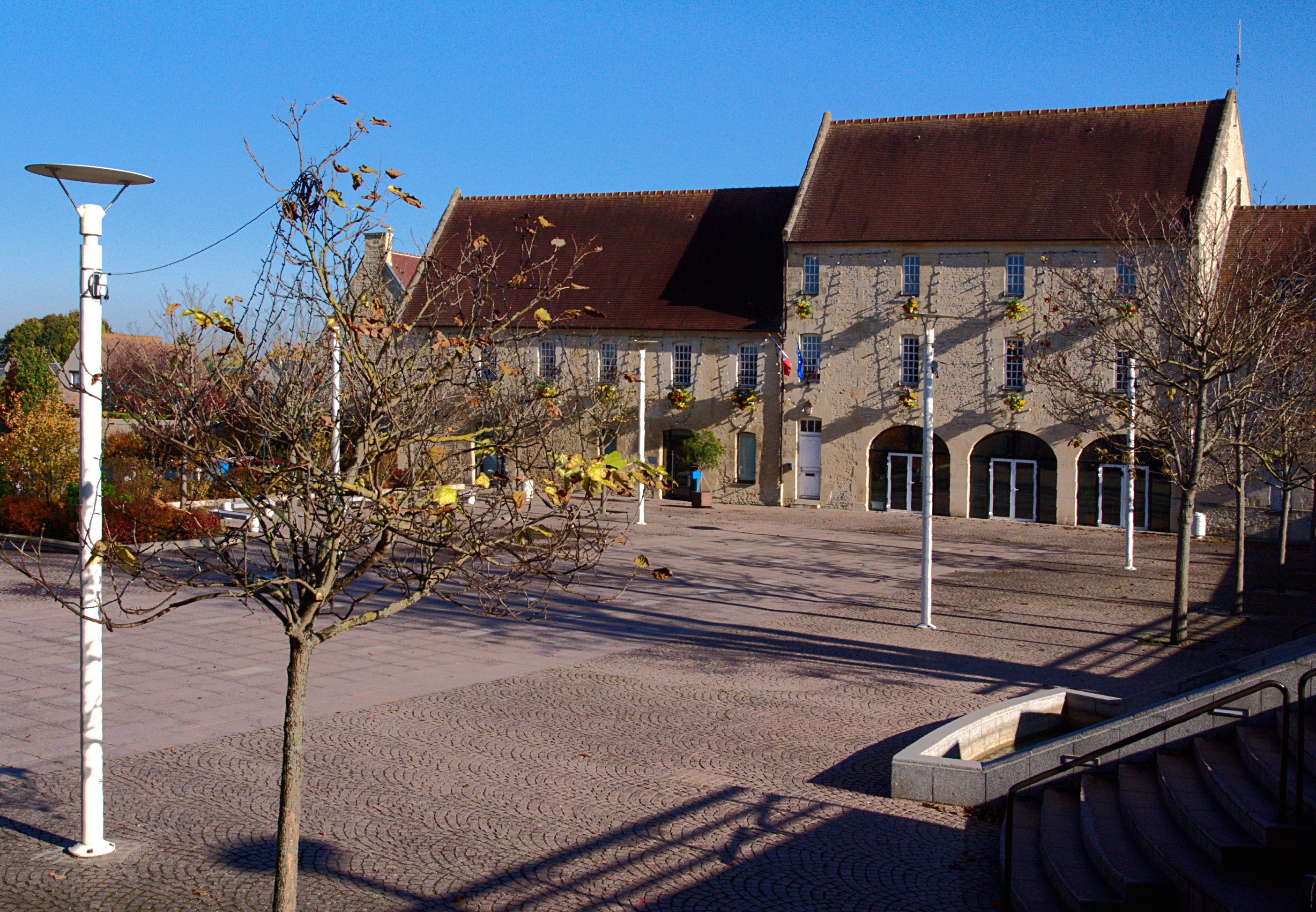 The town hall of IFS village, in Calvados, French.